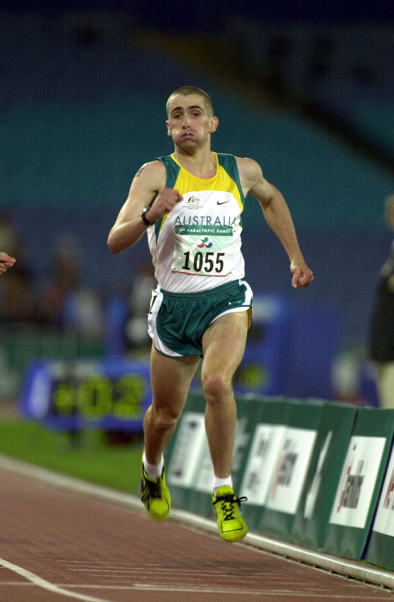 Action shot of Australian track athlete Tim Sullivan winning gold in the 200 m T38 final at the 2000 Sydney Paralympic Games, Day 04